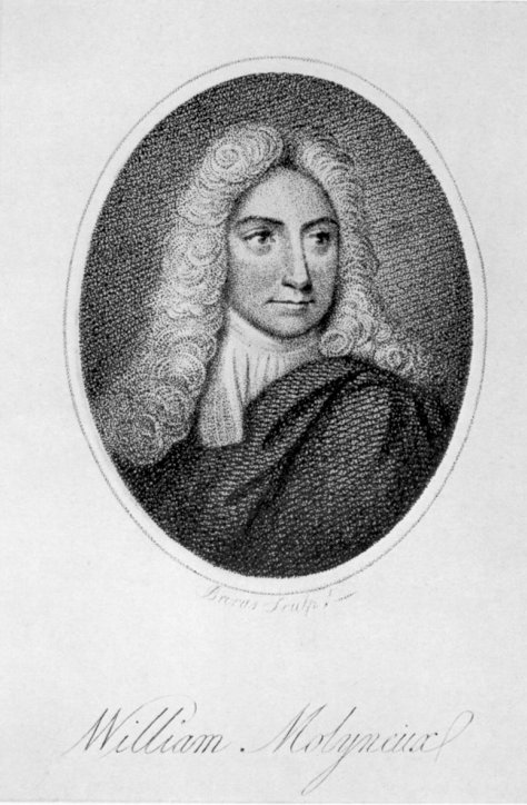 William Molyneux, FRS. Engraving by James Henry Brocas, dated September 1803, after a painting by Robert Home in Trinity College Dublin.